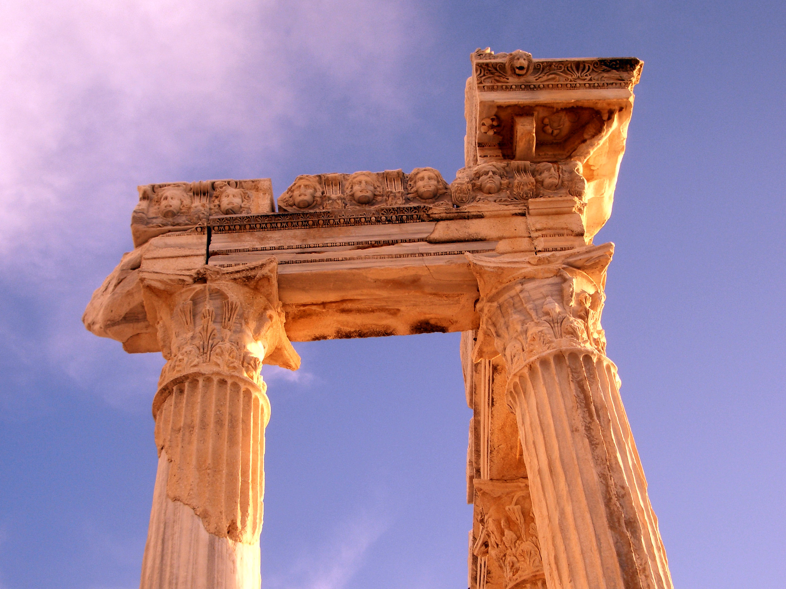 Temple of Apollo during sunset Side-Antalya Turkey